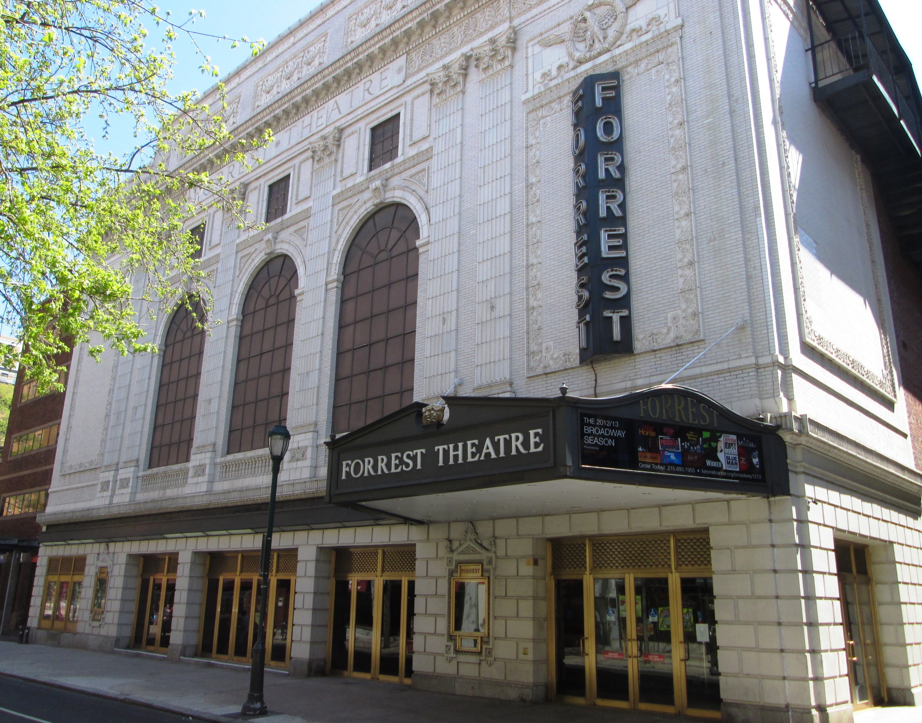 The Forrest Theatre at 1114 Walnut Street at the corner of S. Quince Street in the Center City area of Philadelphia, was built in 1927 at the cost of $2 million, and was designed by Herbert J. Krapp. The theatre was named after the 19th century actor Edwin Forrest, who was born in Philadelphia. It seats 1,851 and is managed by the Shubert Organization. The theatre was renovated in 1987. One unique aspect of the building is that the dressing rooms are in a separate building which is connected to the theatre by an underground tunnel. (Source: "The Forrest Theatre, Philadelphia" on the Shubert Organization website)